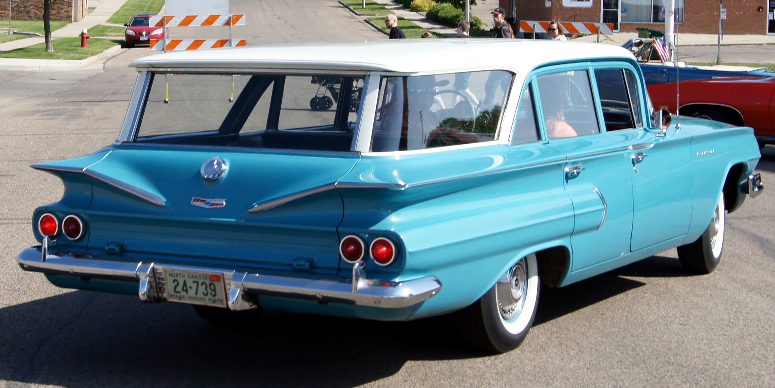 1960 Chevrolet Brookwood station wagon